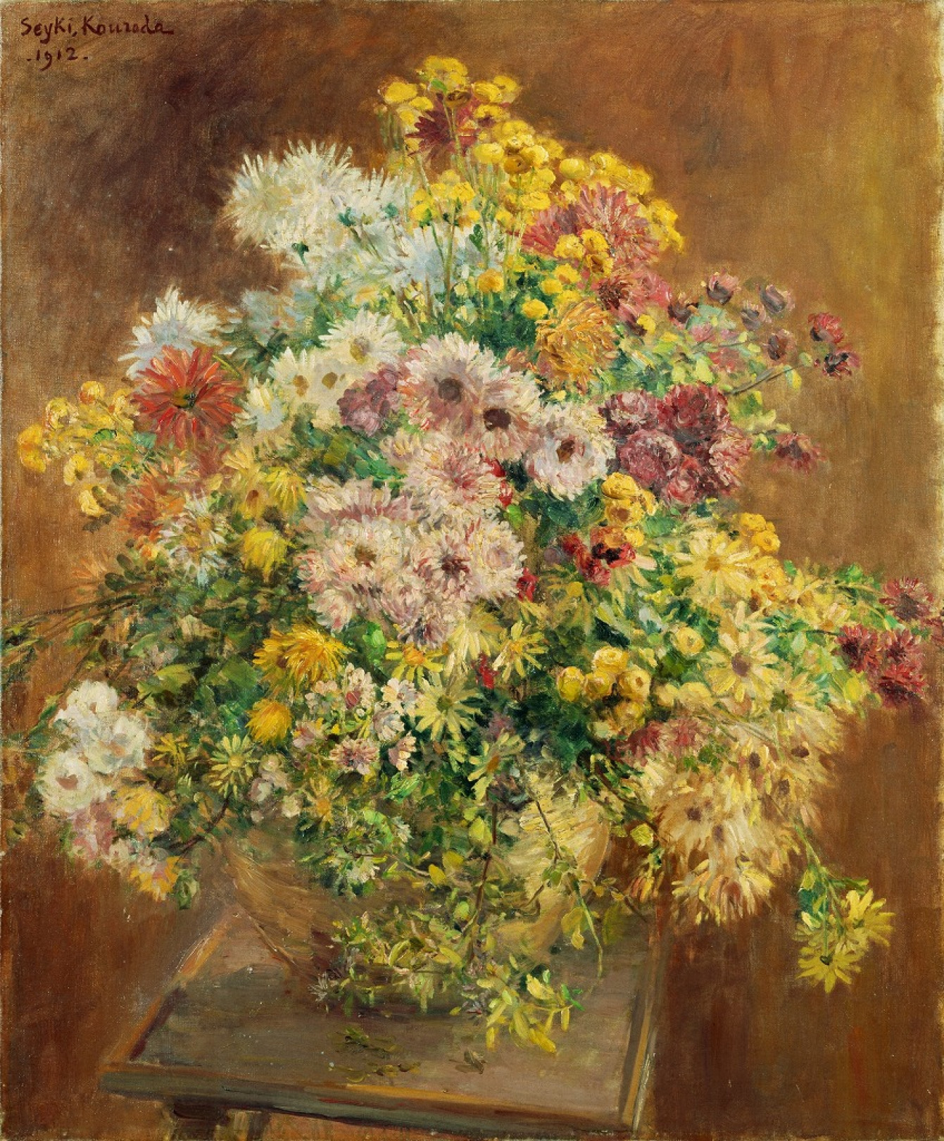 Chrysanthemumslabel QS:Len,"Chrysanthemums" label QS:Lja,"菊 黒田清輝筆"